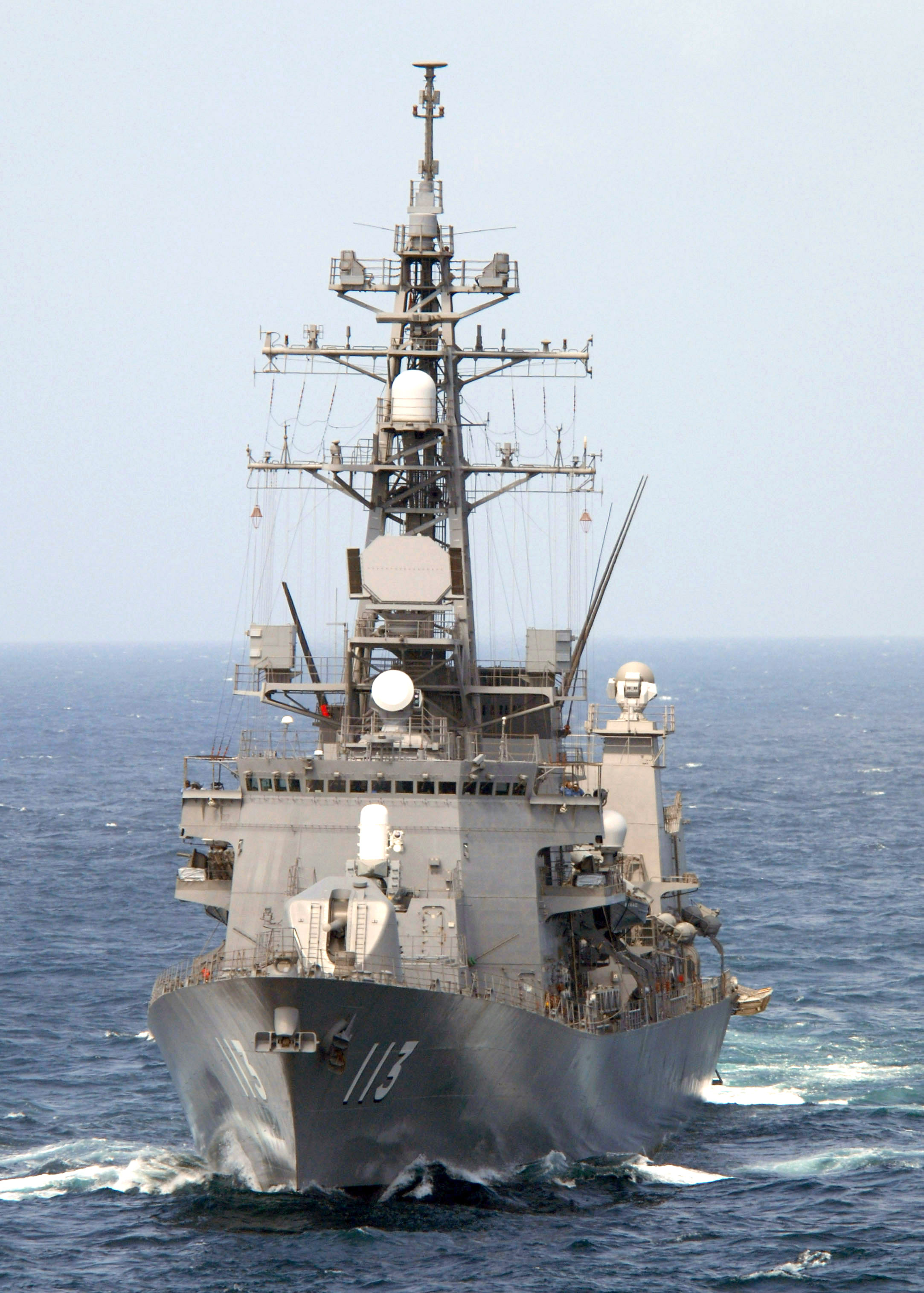 Arabian Sea (Sept. 4, 2006) - The Japanese destroyer Sazanami (DD-113) sails behind the amphibious assault ship USS Iwo Jima (LHD-7) during a Replenishment at Sea (RAS) with the Japanese supply ship Mashu (AOE 425). Iwo Jima is deployed on a regularly scheduled six-month deployment to the U.S. European Command and U.S. Central Command (CENTCOM) areas of responsibility (AOR) in support of Maritime Security Operations (MSO).